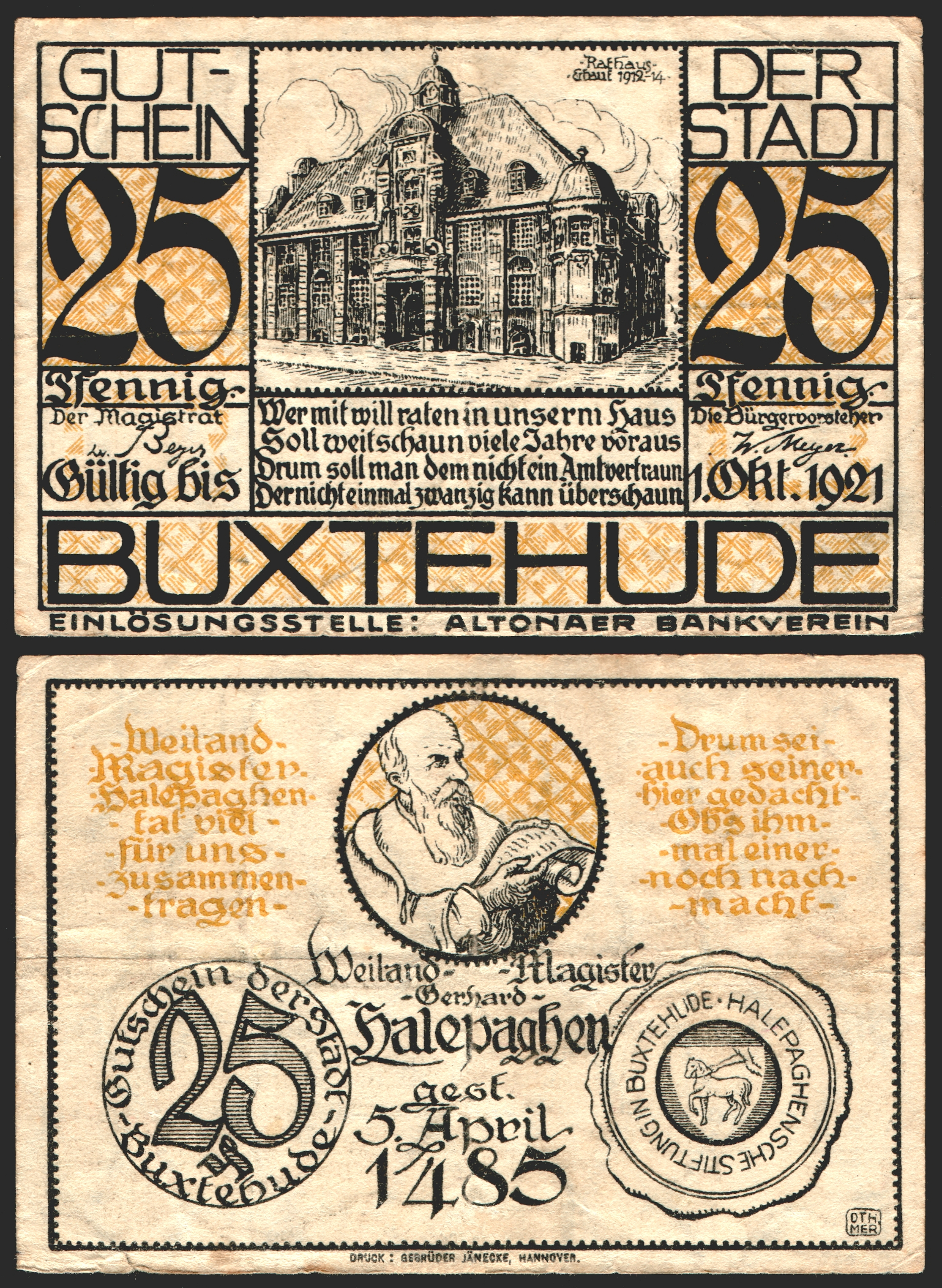 25 Pfennig "Notgeld" banknote of Buxtehude (1921), RV commemorates Magister Gerhard Halepaghe (1420-1485), size: 62 mm x 91 mm.